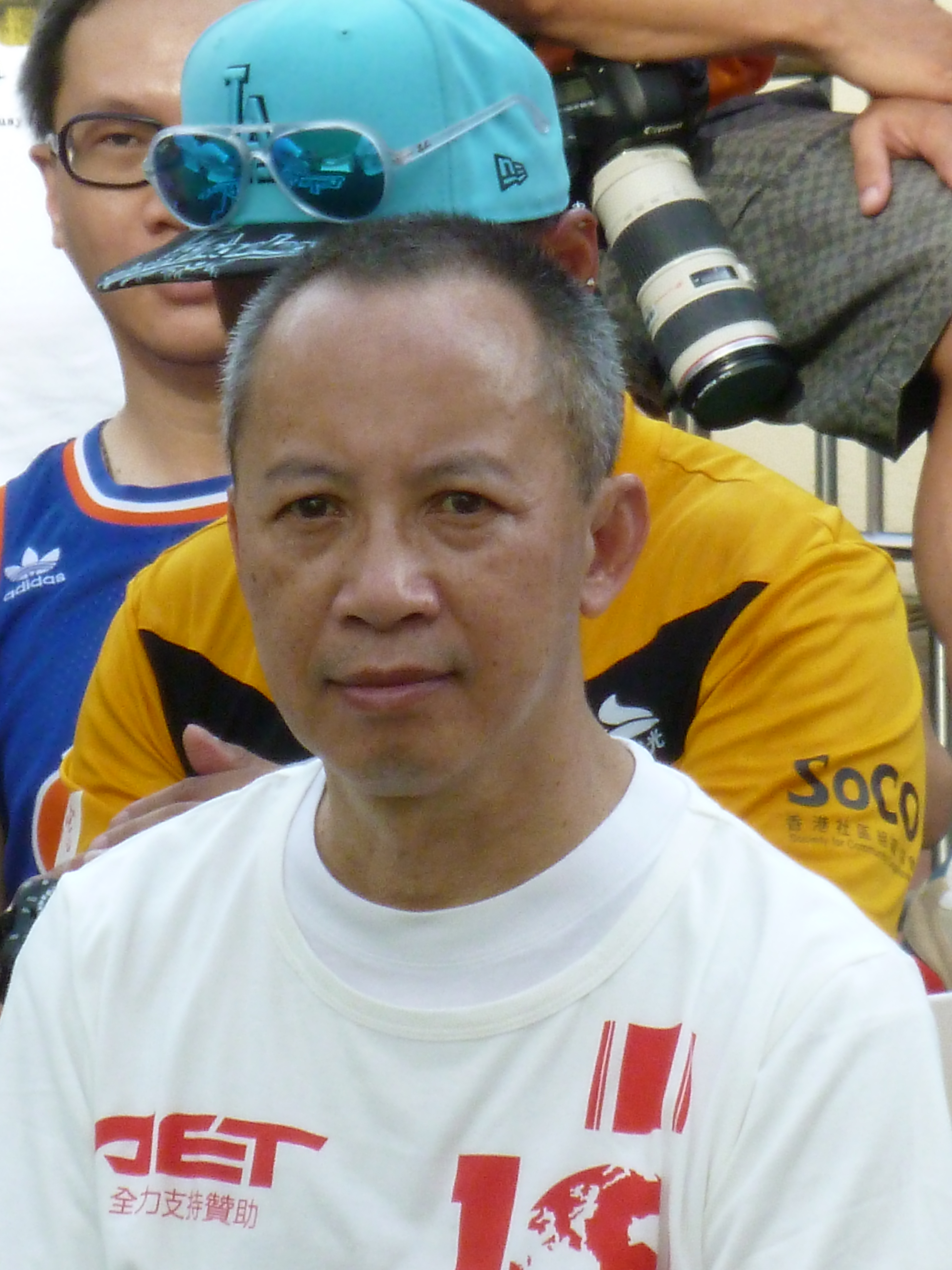 Ho Hei-wah (17 Aug 2014; Homeless World Cup Fundraising Tournament; Macpherson Playground, Mong Kok) 中文（香港）: 何喜華 (17 Aug 2014, 無家者世界盃慈善籌款賽, 旺角麥花臣足球場)